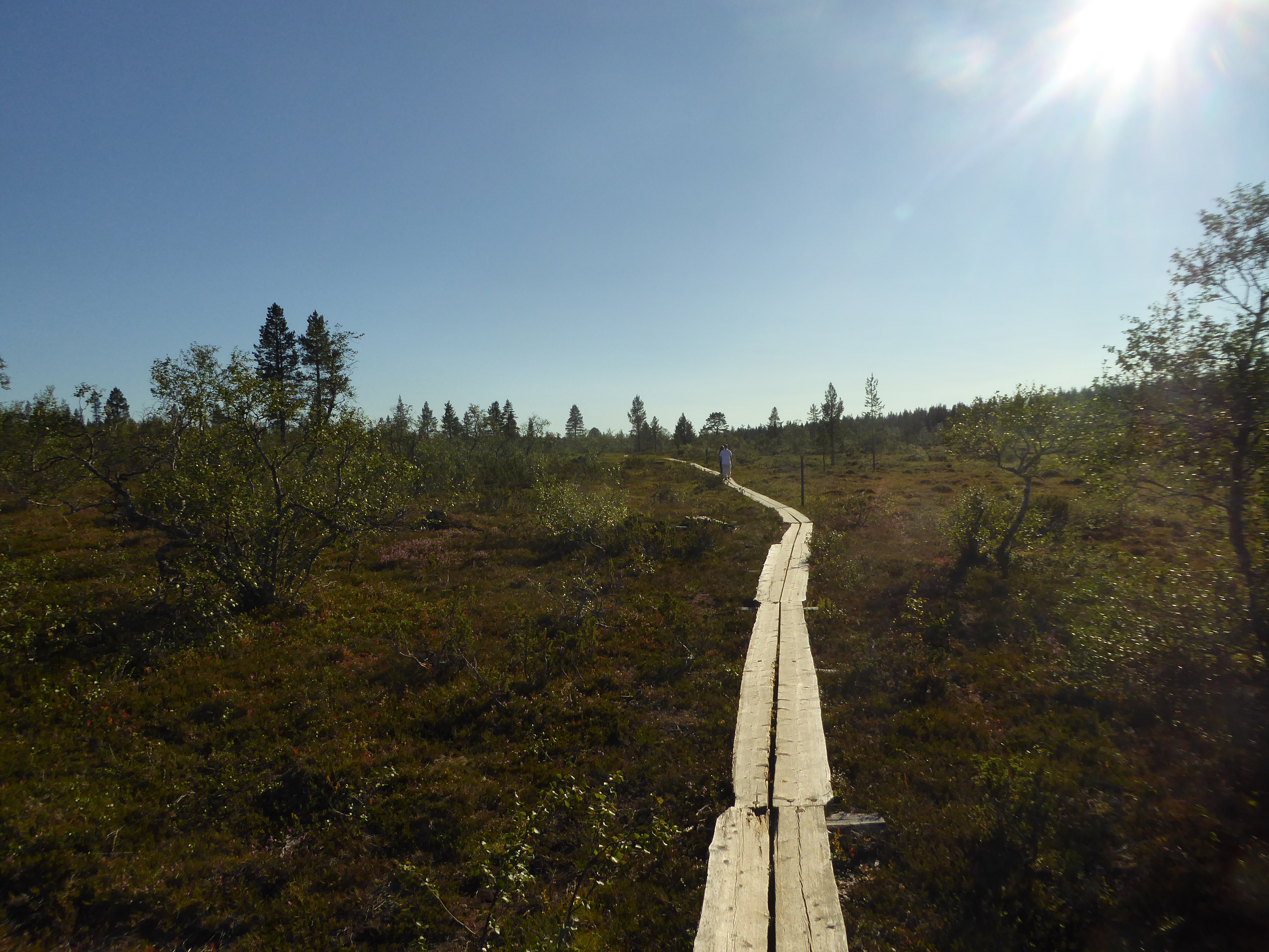 Lapland, Urho Kekkonen National Park. Wikidata has entry Q1537700 with data related to this item.